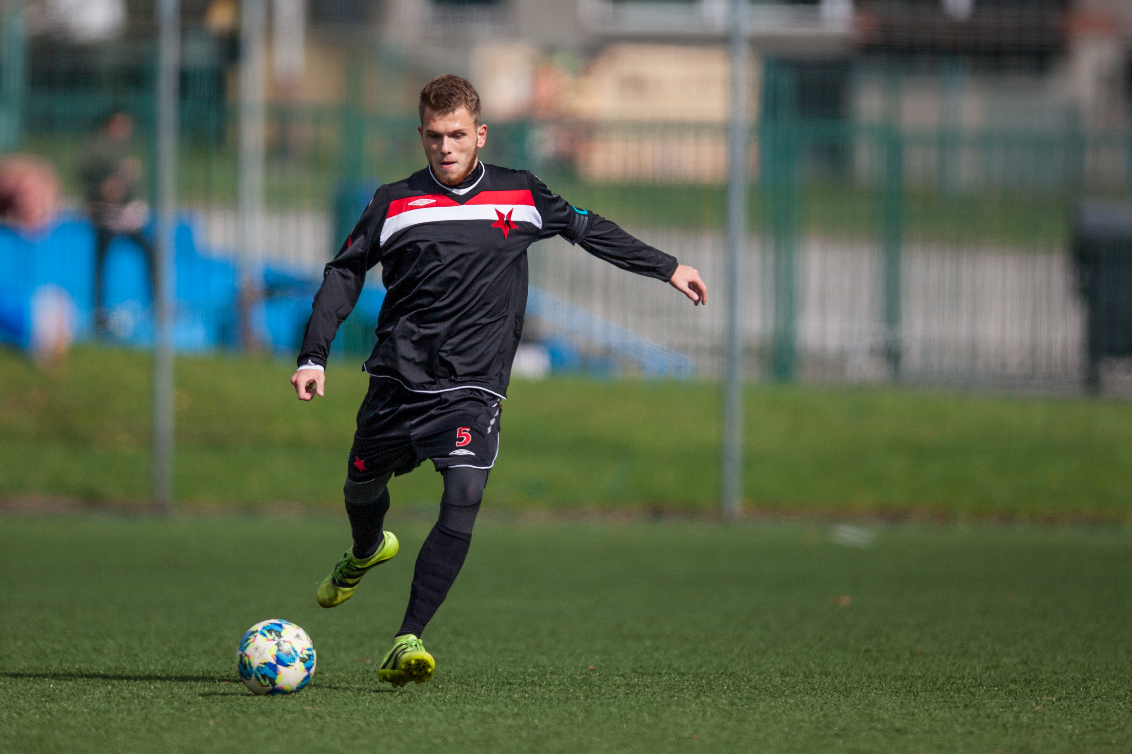 Moravian-Silesian Region youths league between FK Slavia Orlová and TJ Bystřice (3:0); Orlová, Karviná District, Moravian-Silesian Region, Czechia